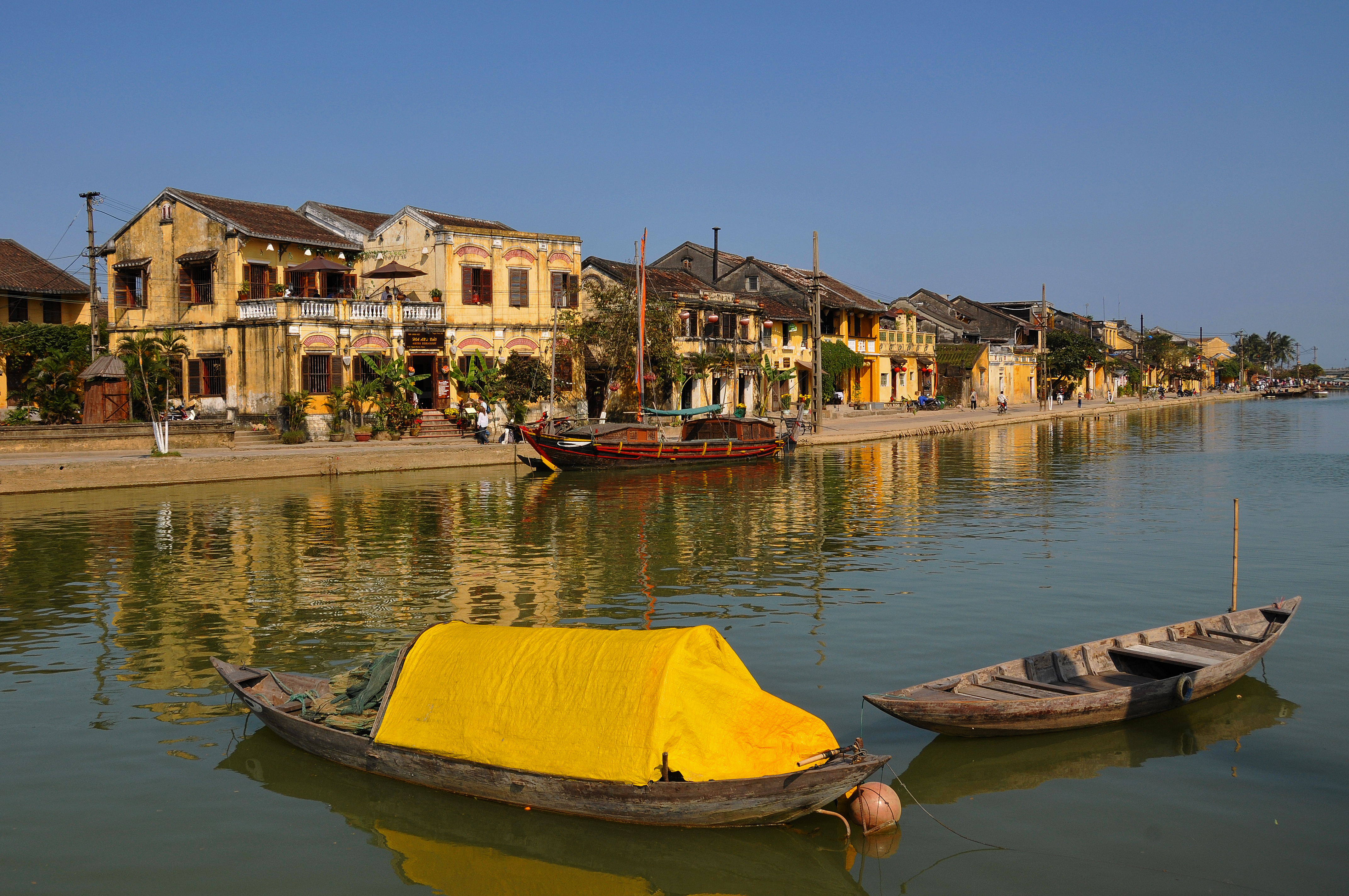 Waterfront of Hoi An on the Thu Bon River.